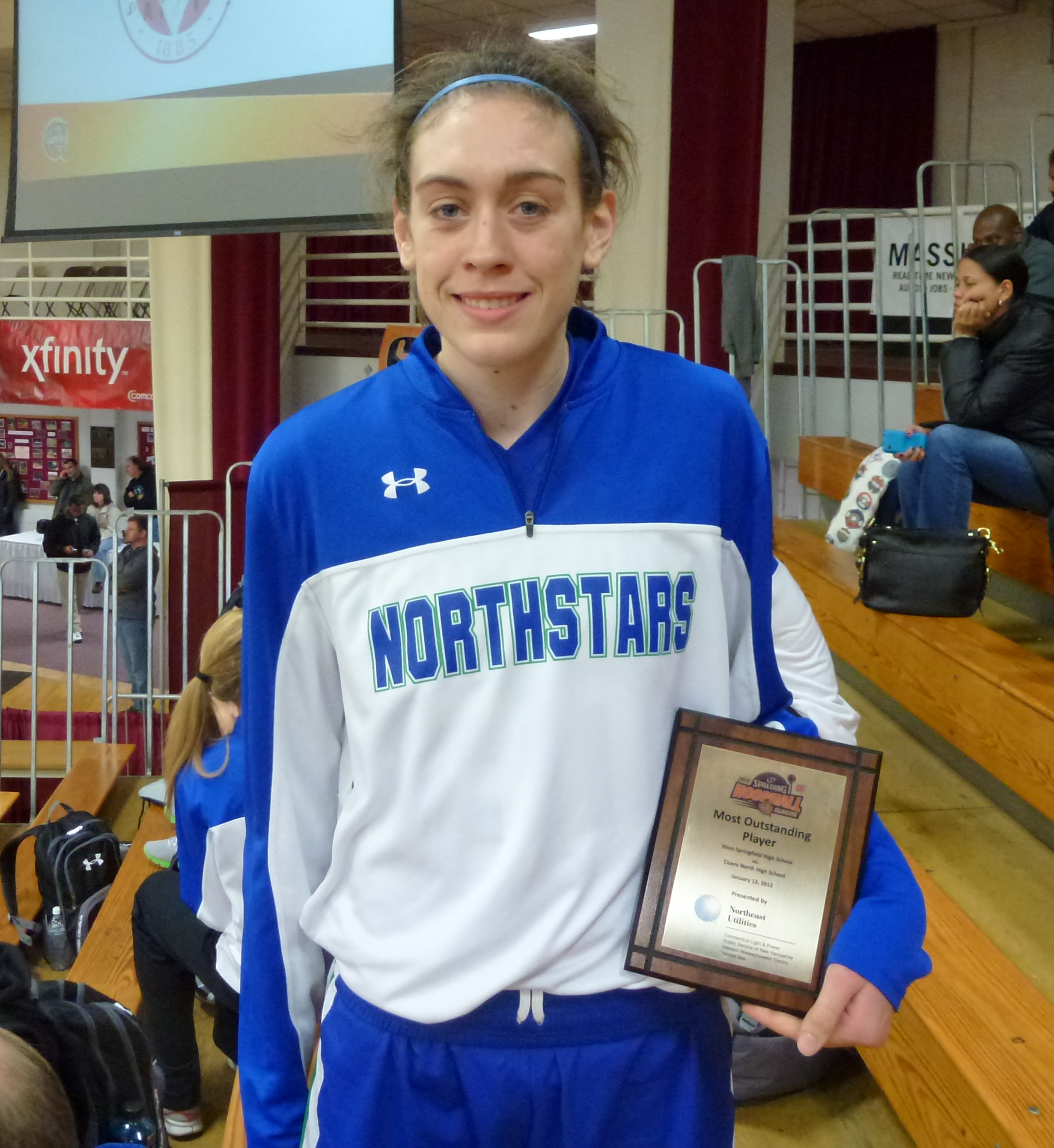 Breanna Stewart, posing with Most Outstanding Player plaque, at the 2012 HoopHall Classic. Stewart's team won 60–20.